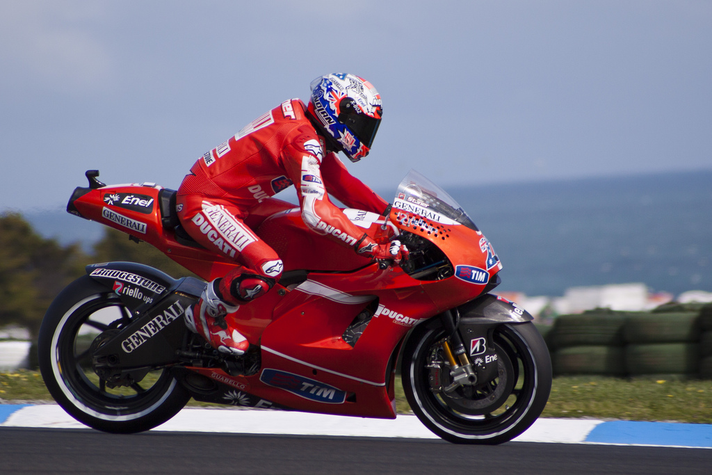 Casey Stoner - Phillip Island MotoGP 2010